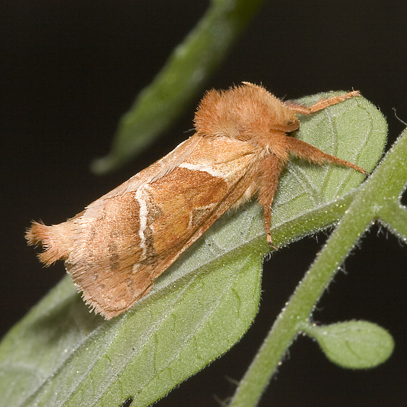 Orange Swift (Triodia sylvina)